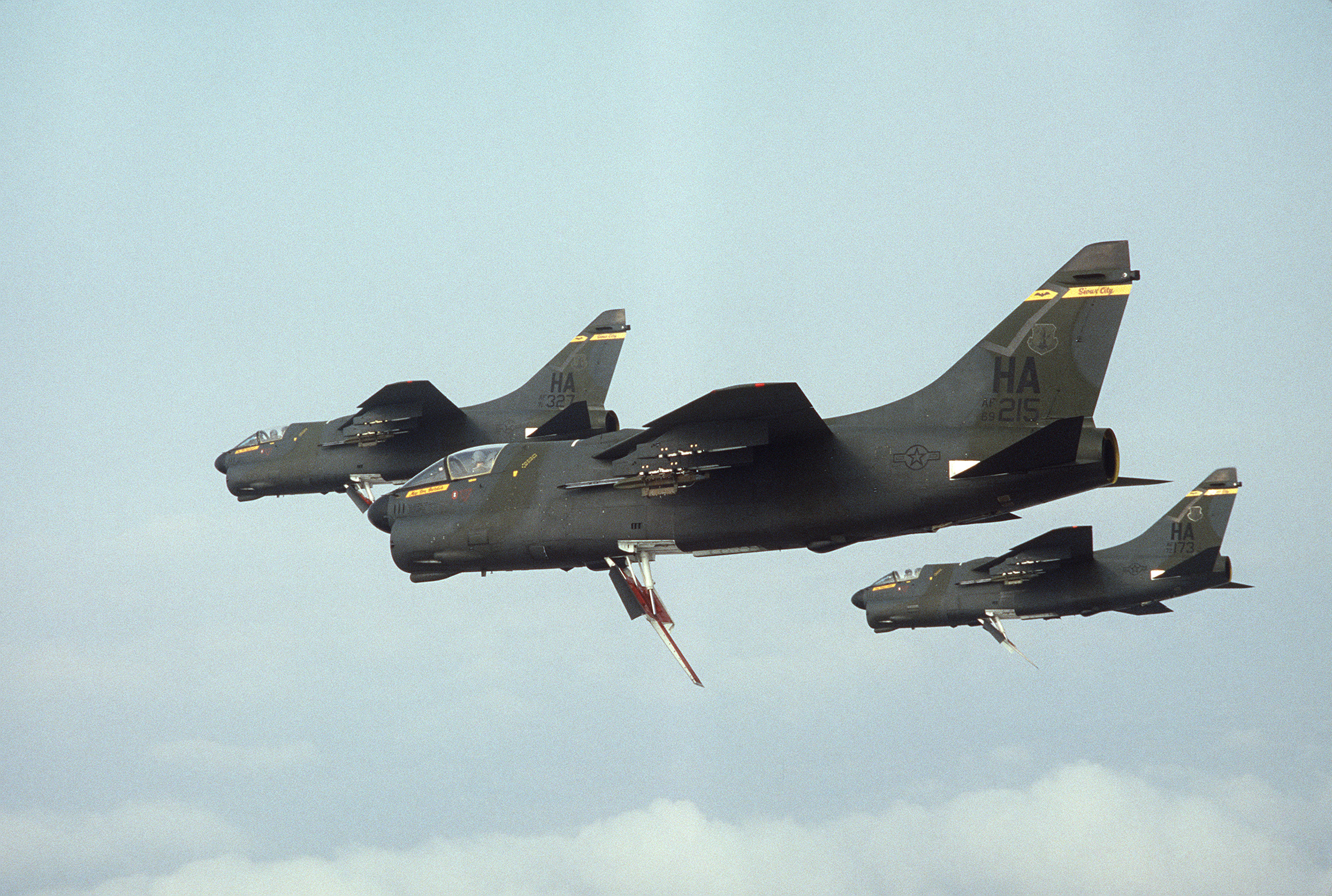 An air-to-air view of three Vought A-7D Corsair II aircraft in formation (69-6215, 71-0327 and 72-0173) during Exercise TEAM SPIRIT'86 on 1 Mar 1986. The aircraft belonged to the 185th Tactical Fighter Group, Iowa Air National Guard, based at Sioux Gateway Airport in Sioux City, Iowa (USA), which flew the A-7D from 1977 to 1992. Note the extended speed brakes.